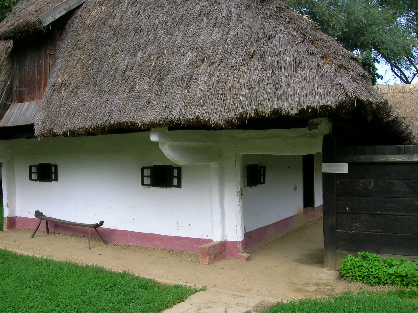 Old peasant home. Göcsej Village Museum, Zalaegerszeg, Hungary.